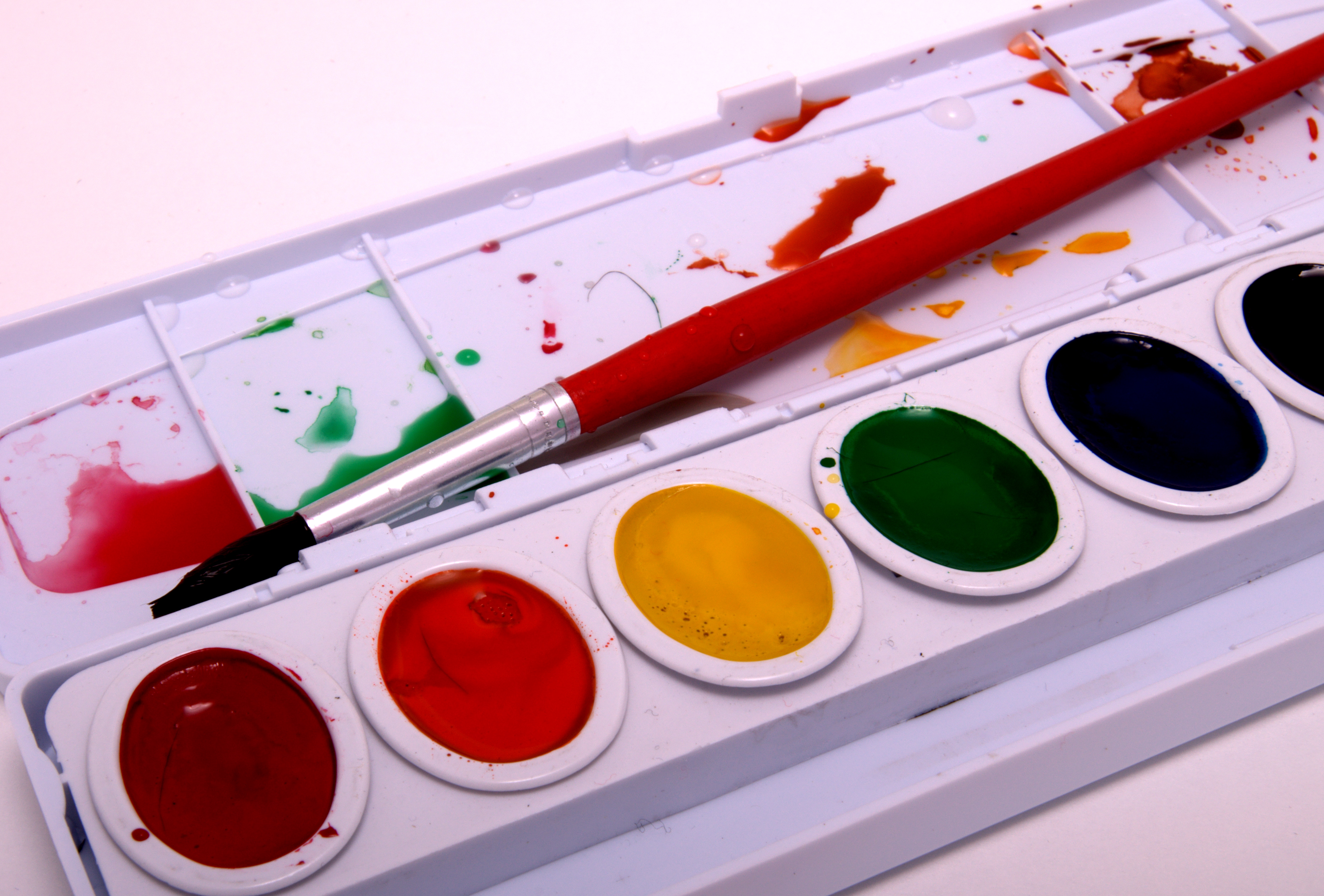 A set of watercolor paints lit from inside of a tent to preserve shine on the paintbrush handle.